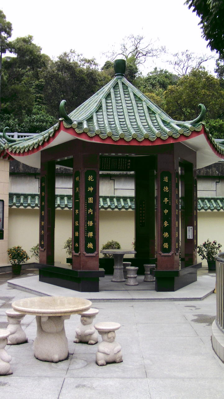 Virtue_Pavilion_at_Tuen_Mun_Sin_Hing_Tung 中文（香港）: 香港新界屯門善慶洞道德亭